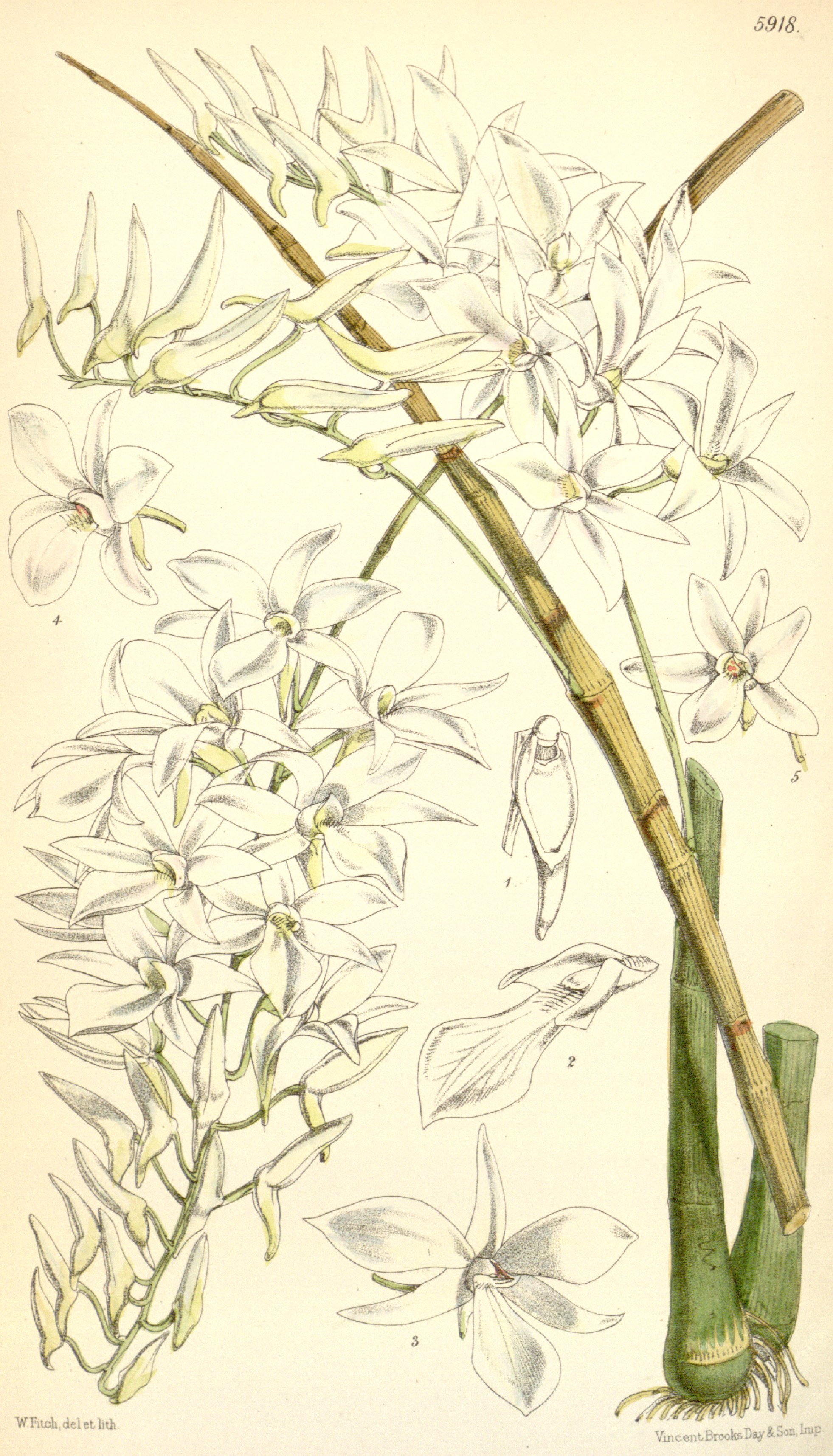 Illustration of Dendrobium barbatulum